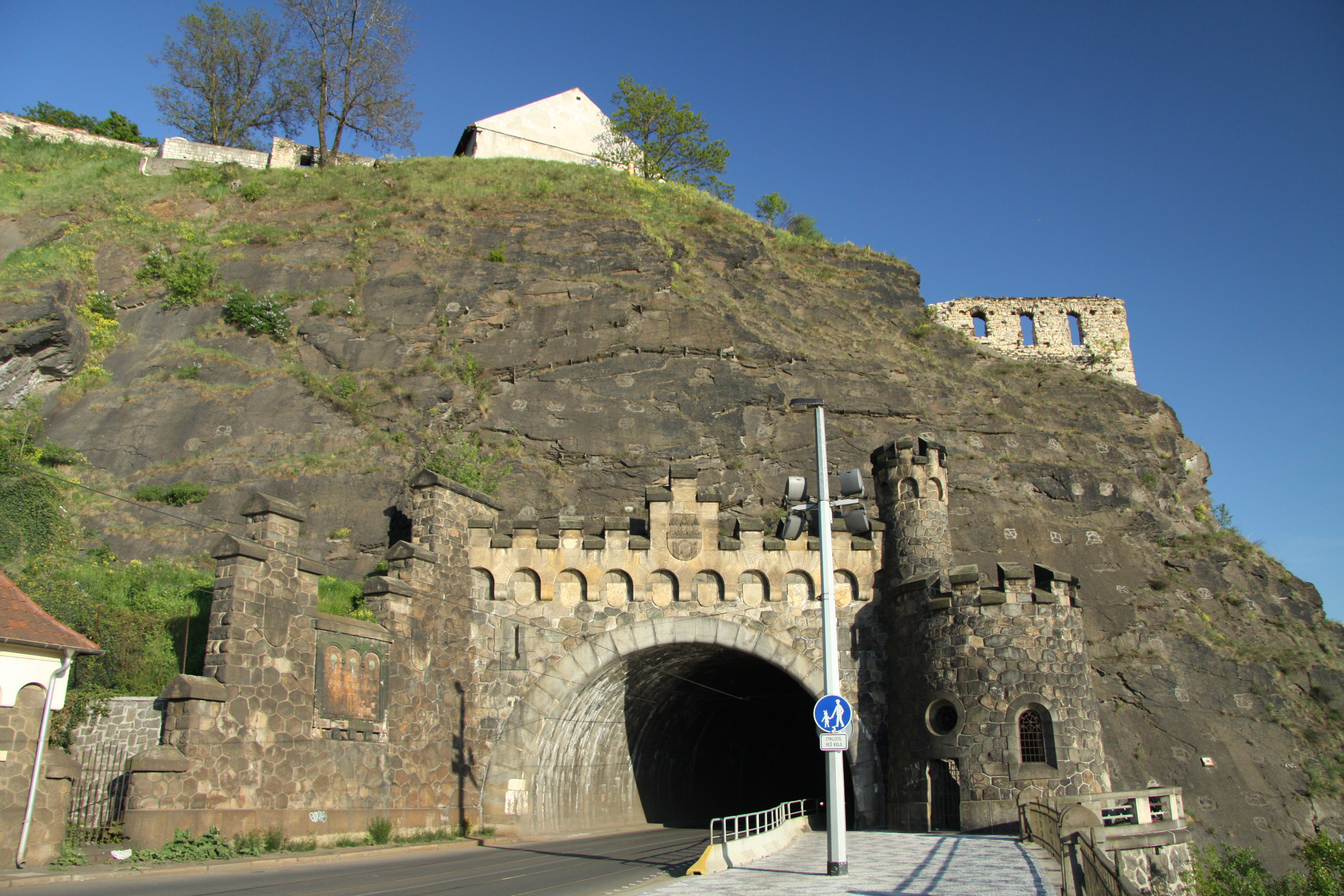 Vyšehrad tunnel from Výtoň direction, Podolí, part of Prague, Czech republic